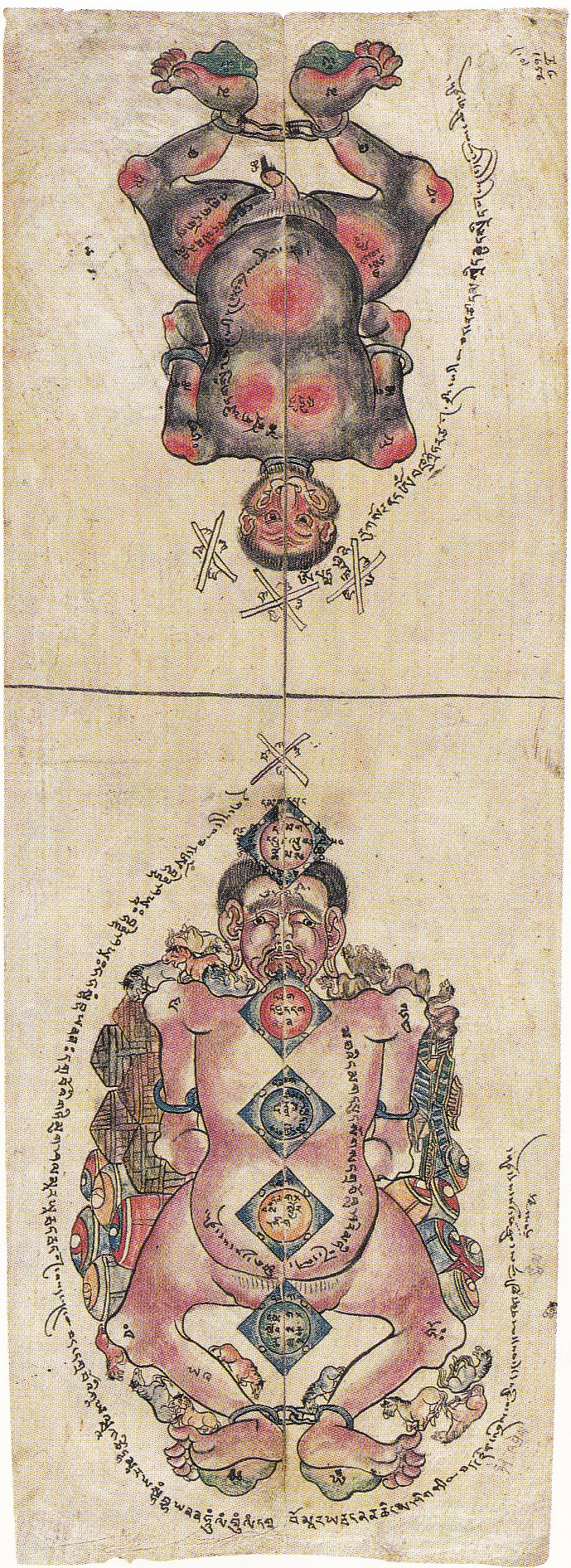 Text from the Secret Visions of the Fifth Dalai Lama 2